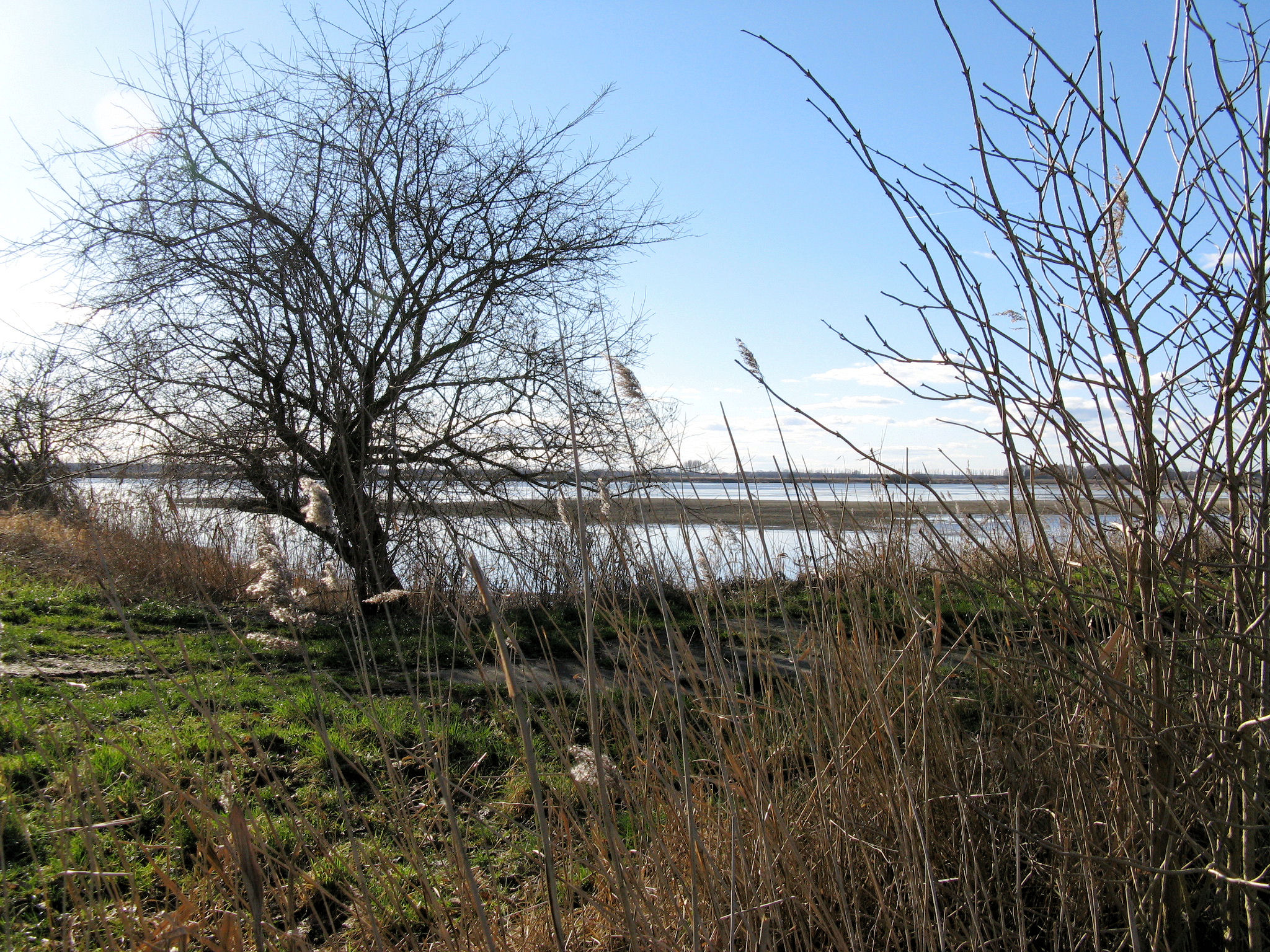 Carp ponds in the north of Neustadt-Glewe, Mecklenburg-Vorpommern, Germany